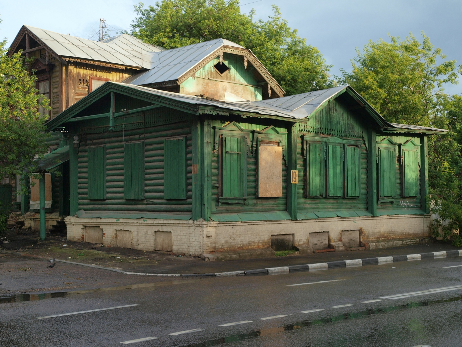 Leninskaya Sloboda Street, Moscow. One of the few remaining vernacular houses.